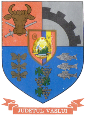 Communist coat of arms of Vaslui County, Socialist Republic of Romania.